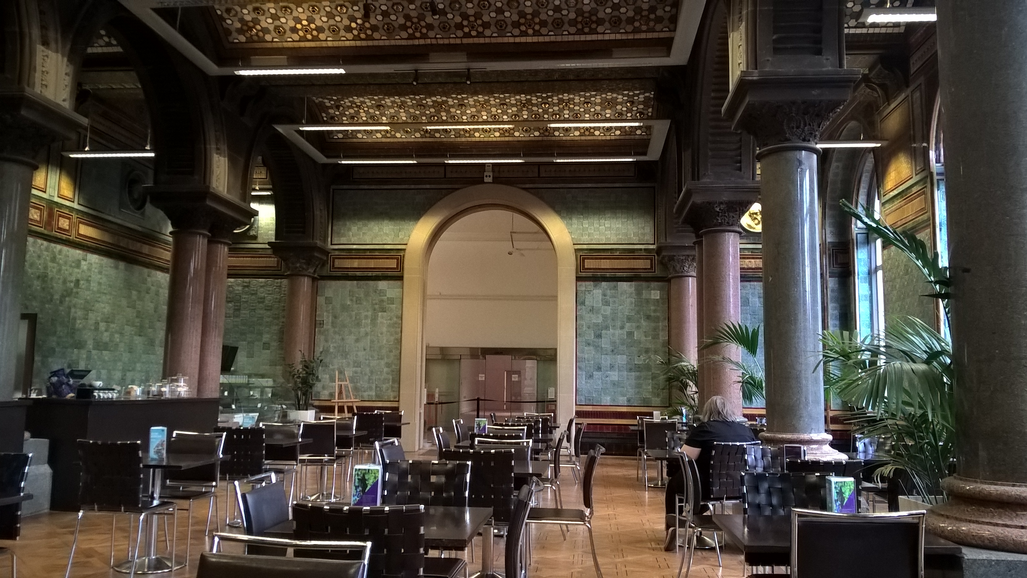 Tiled Hall Café, Leeds City Art Gallery.